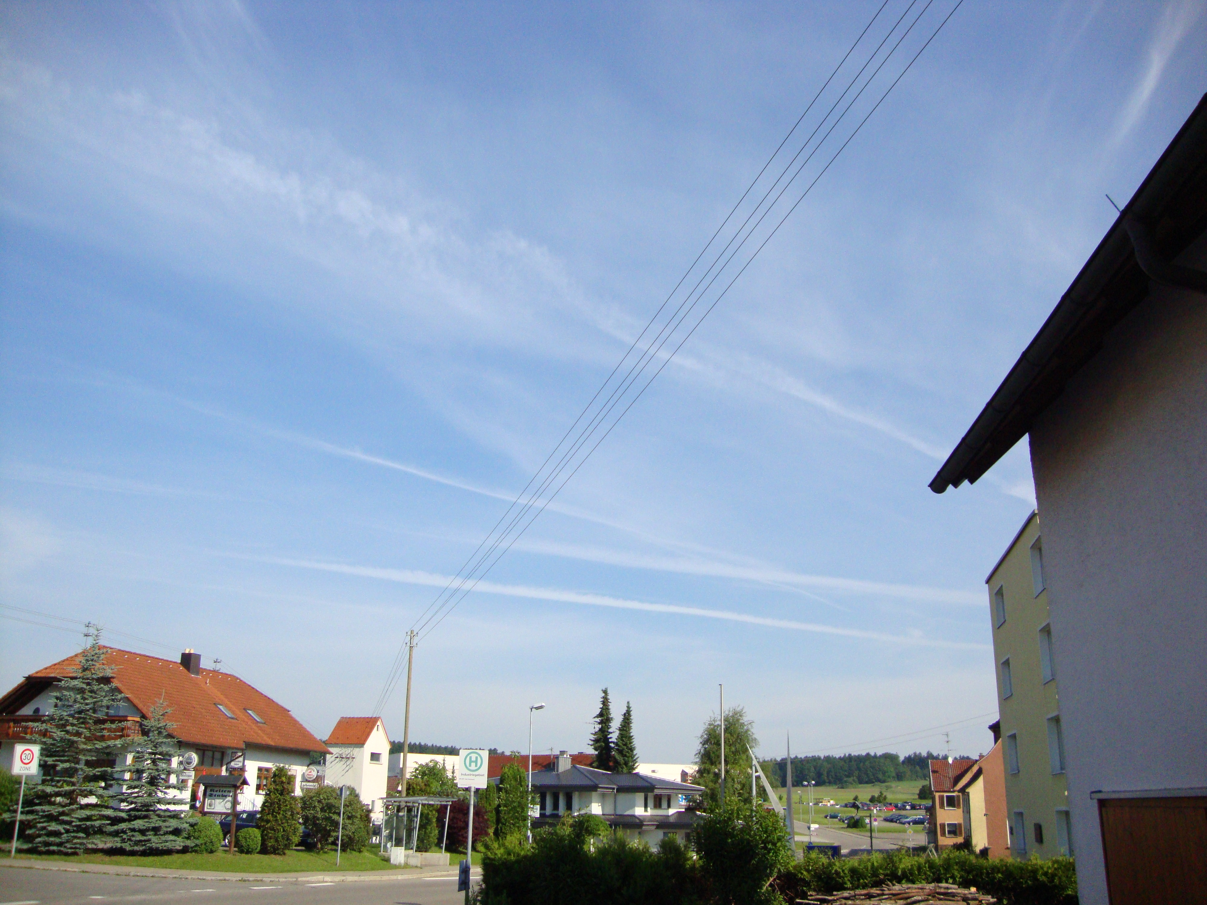 Contrails over Wellendingen.